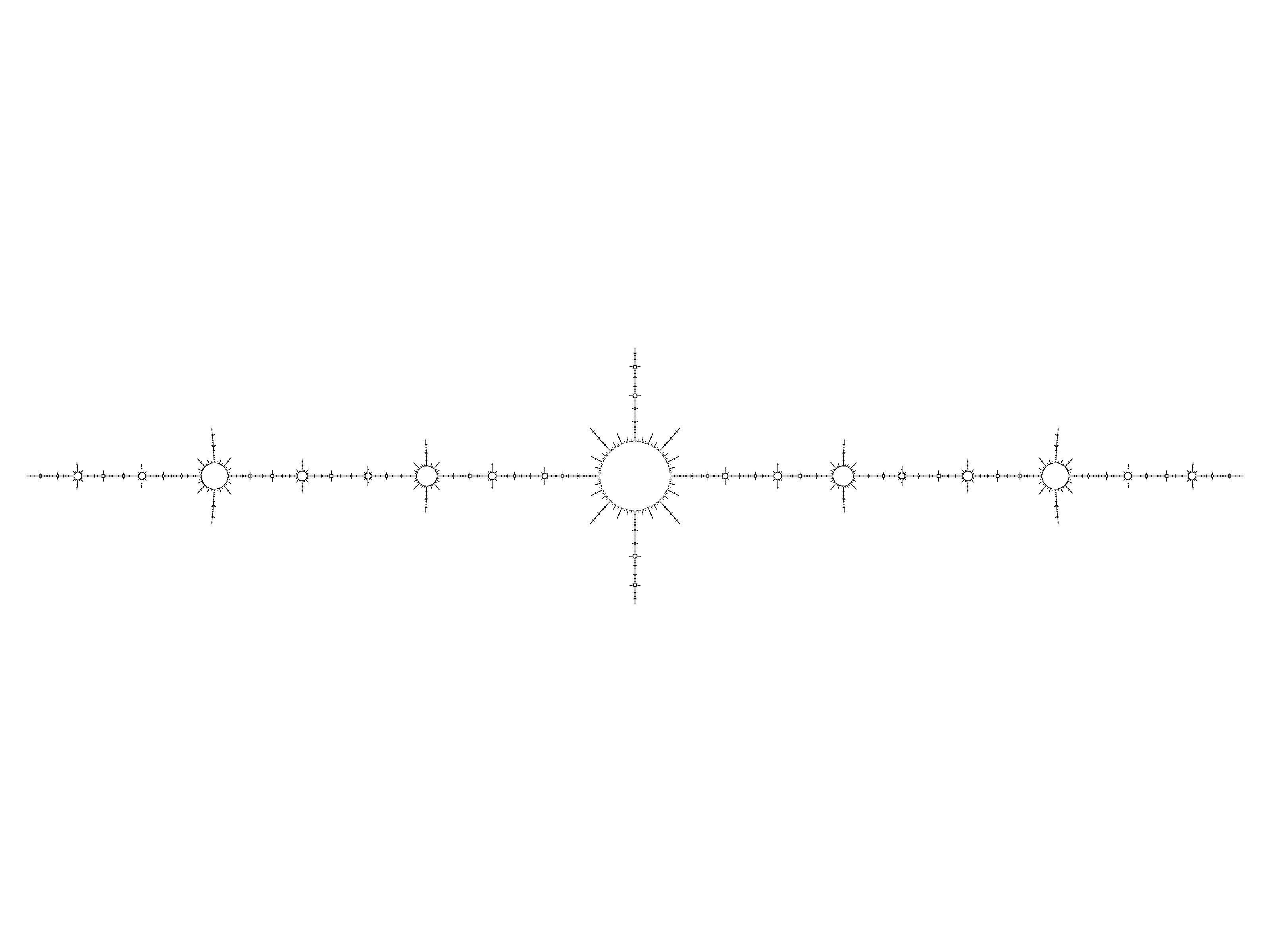 A representation of the aeroplane/airplane Julia set, one of the three quadratic polynomial having a periodic critical point of exact period 3. This is a plot of 20 000 000 preimages of the point 1.91593702764165778419 by the mapping Q ∘ 64 {\displaystyle Q^{\circ 64 where : Q c ( z ) = z 2 + c {\displaystyle Q_{c}(z)=z^{2}+c} c = − 2. 3. − 1. / 3. ∗ ( δ + 1. / δ ) {\displaystyle c=-{\frac {2.}{3. -1./3.*(\delta +1./\delta )} δ = − ( 1 / 2 ( 1 / 4 − 3 69 ) ) 1 / 3 {\displaystyle \delta =-(1/2(1/4-3{\sqrt {69 ))^{1/3 .